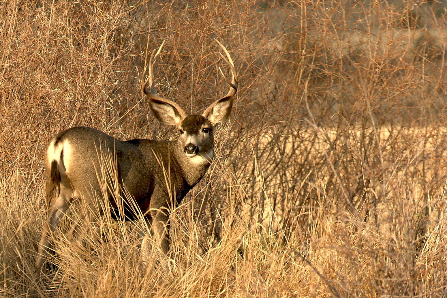 A mule deer buck displays an impressive rack at Malheur National Wildlife Refuge in Oregon. Mule deer bucks are a common sight on the refuge during late summer and fall. Bucks with large antlers are a big draw for visitors and photographers in the fall. Credit: Barbara Wheeler